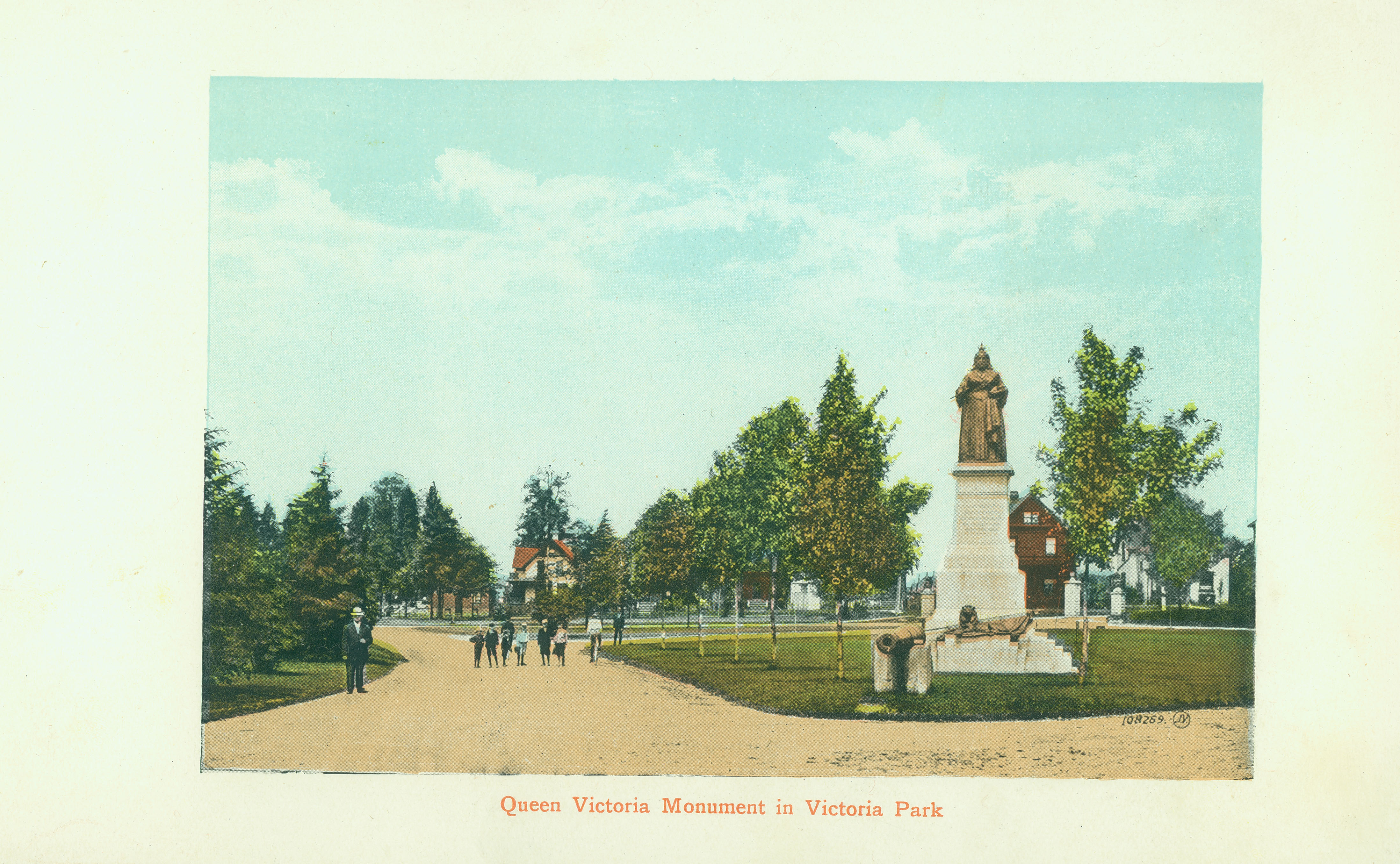 Part of: Souvenir of Kitchener, Ont. Reference number: 12-36_3